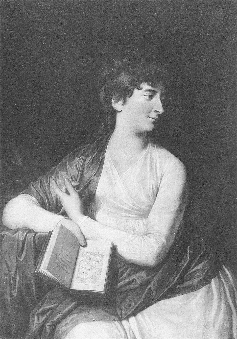 Christiane Suhm, born Becker. Wife of historian Peter Frederik Suhm. Painted by Jens Juel.